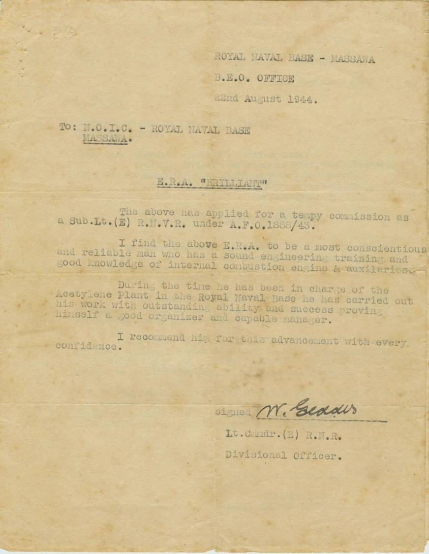 Letter of recommendation for Sub. Lt. commission and Pilot Duties